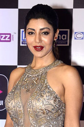 Debina Bonnerjee graces Alt Balaji’s Digital Awards 2018, March 11, 2018.